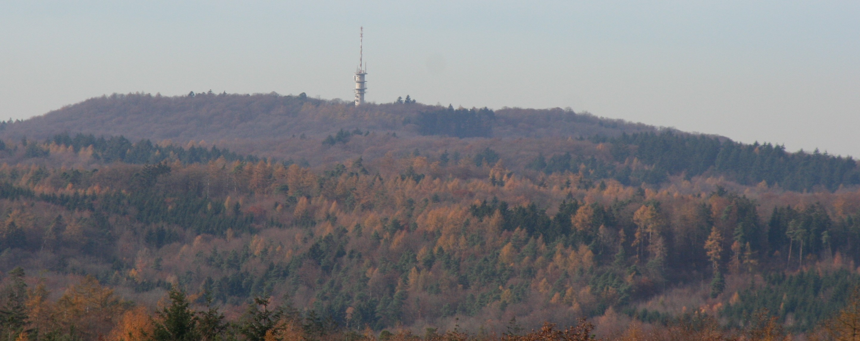 The Schweinsberg hill in Heilbronn as seen from Untergruppenbach-Vorhof